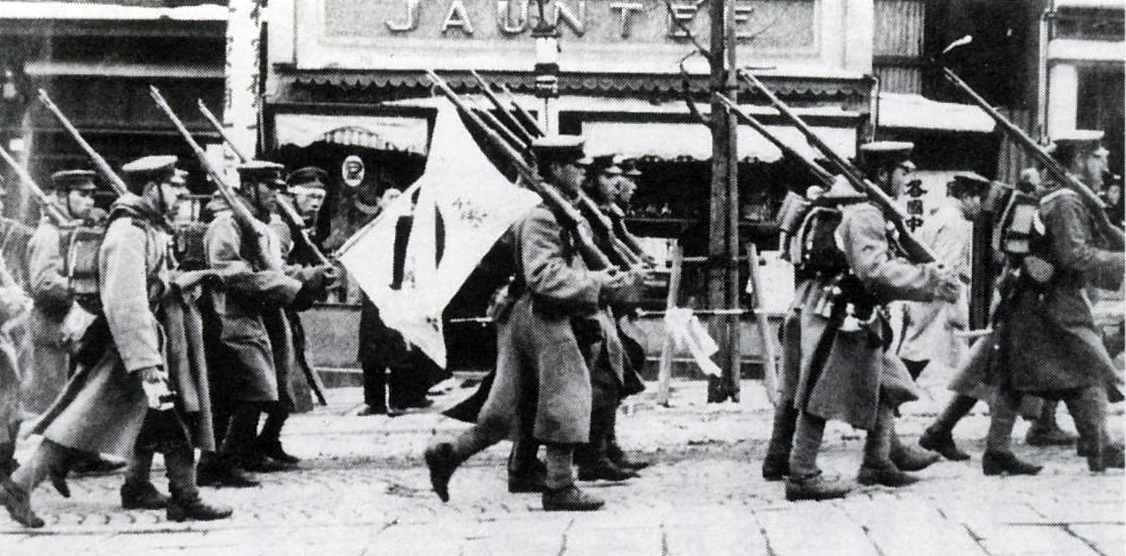 Rebel troops returning to their barracks after the failed 2/26 coup.